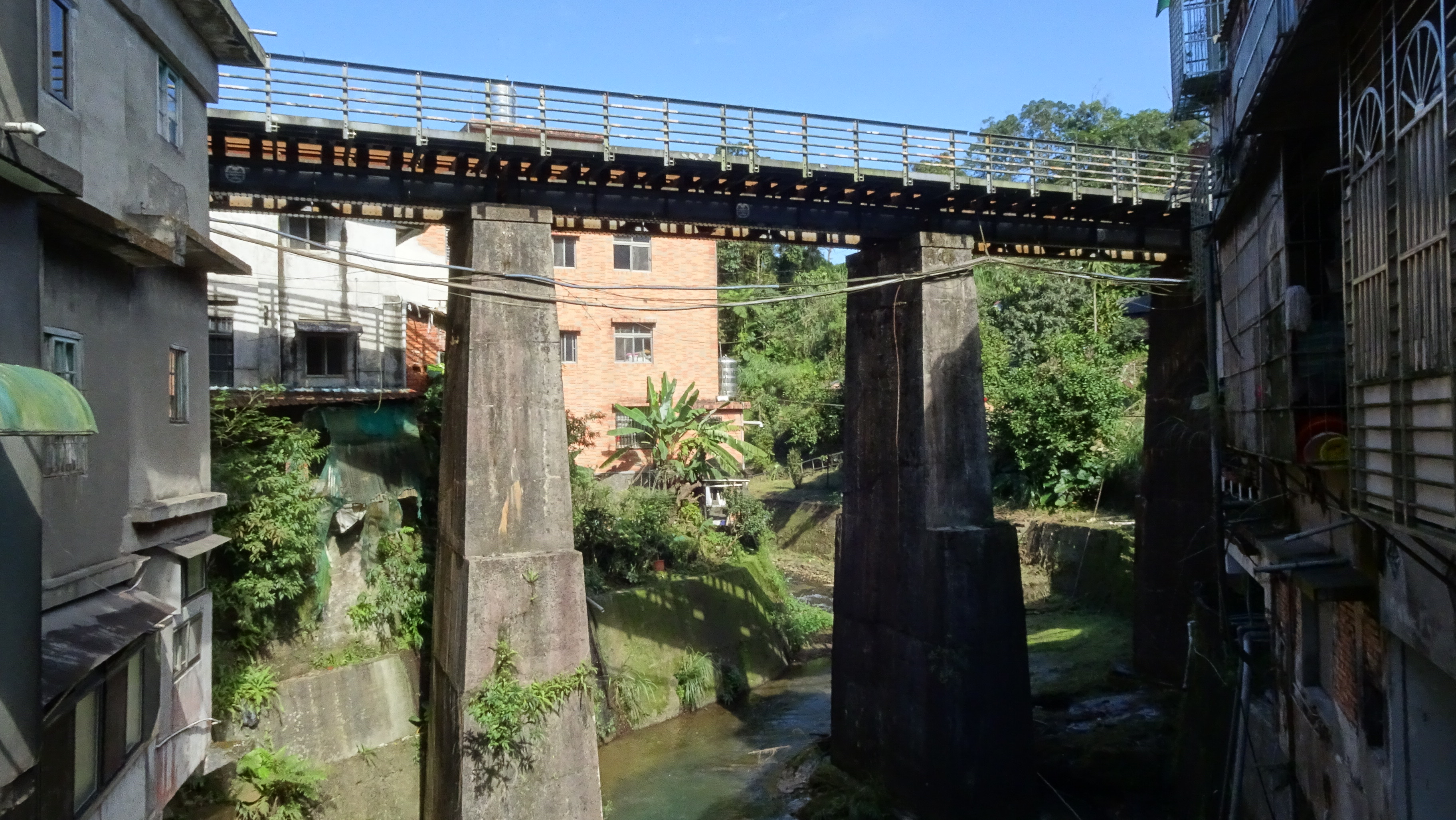 Sankeng Creek Steel Bridge crossing Sankeng Creek, situating closed to Pingxi Station, between Pingxi and Jingtong Station, next to Pingxi Old Street.